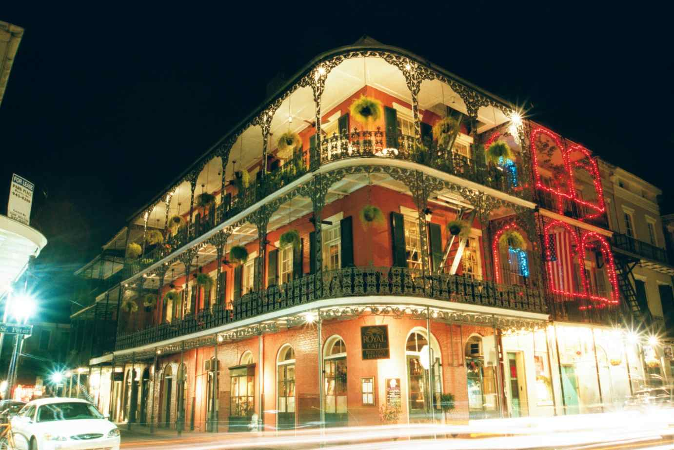 New Orleans, Louisiana, USA. Night time view of multi-story building with decorative iron galleries, Royal Street at St. Peter, French Quarter.